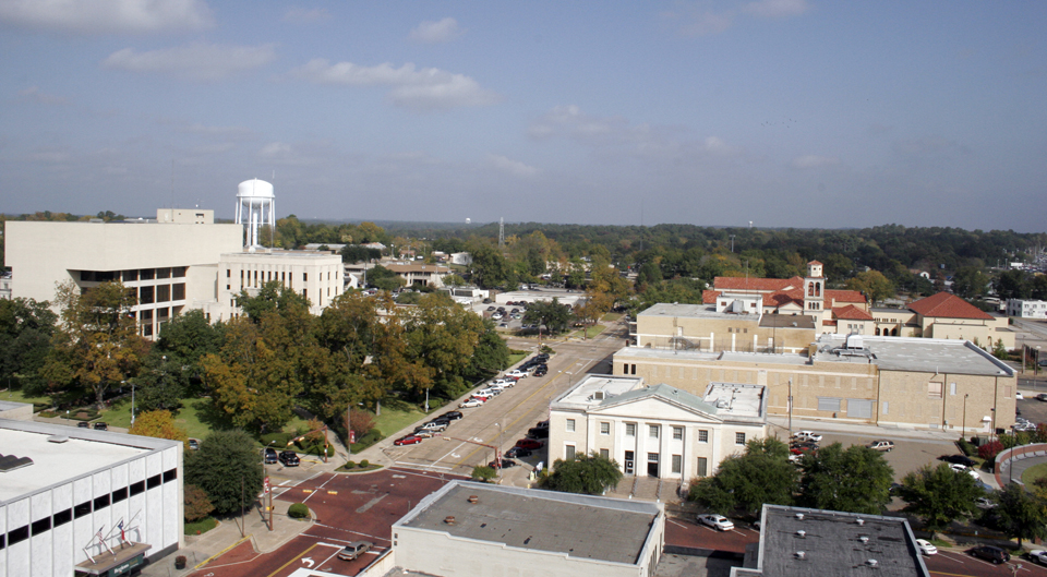 City of Longview)